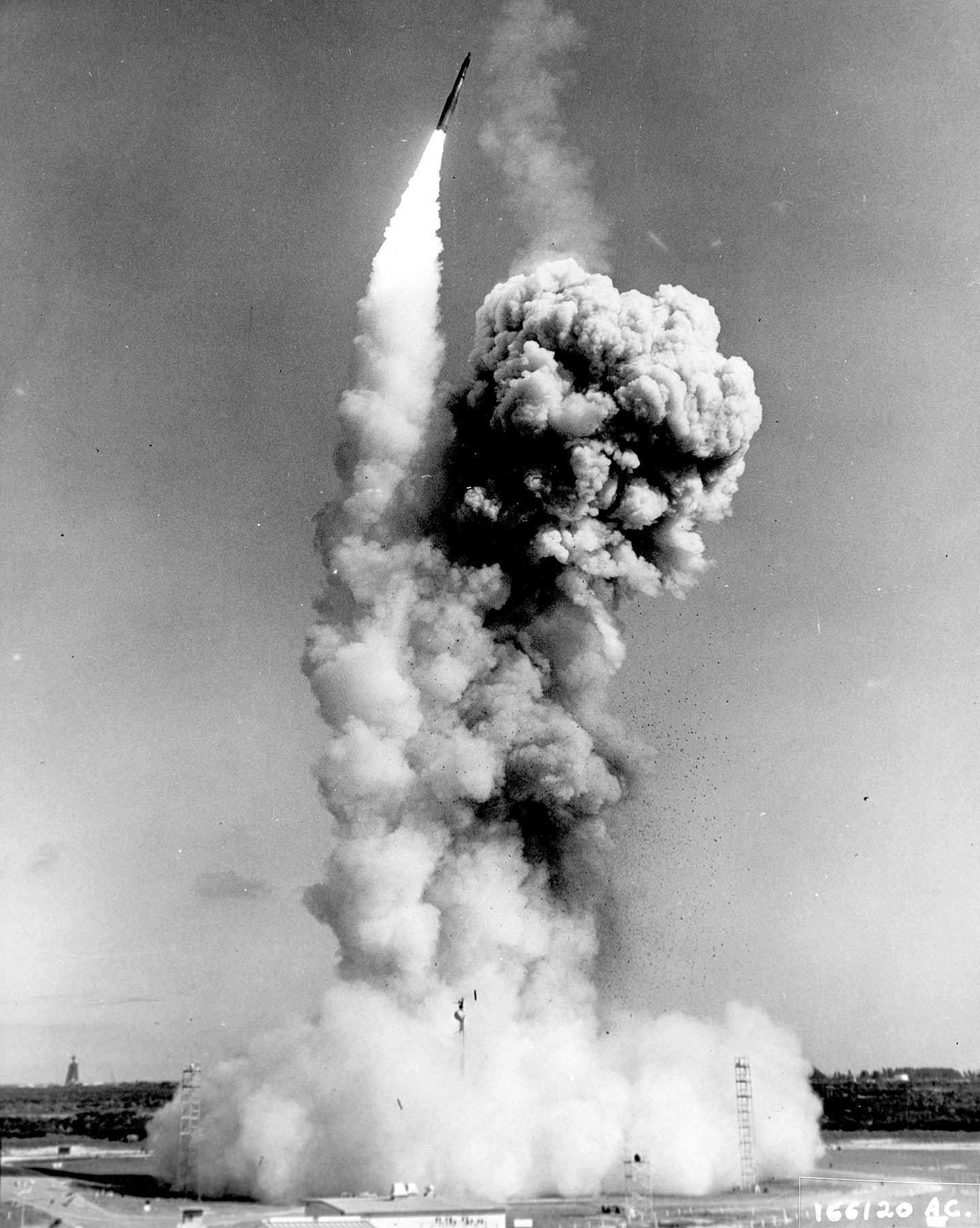 This successful Boeing LGM-30A Minuteman IA launch took place at Cape Canaveral, Fla., on Nov. 17, 1961. Minuteman I became operational less than a year later. (U.S. Air Force photo)